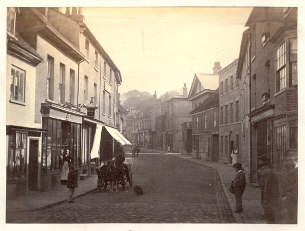 A 19th century photograph of Tring High Street, England.